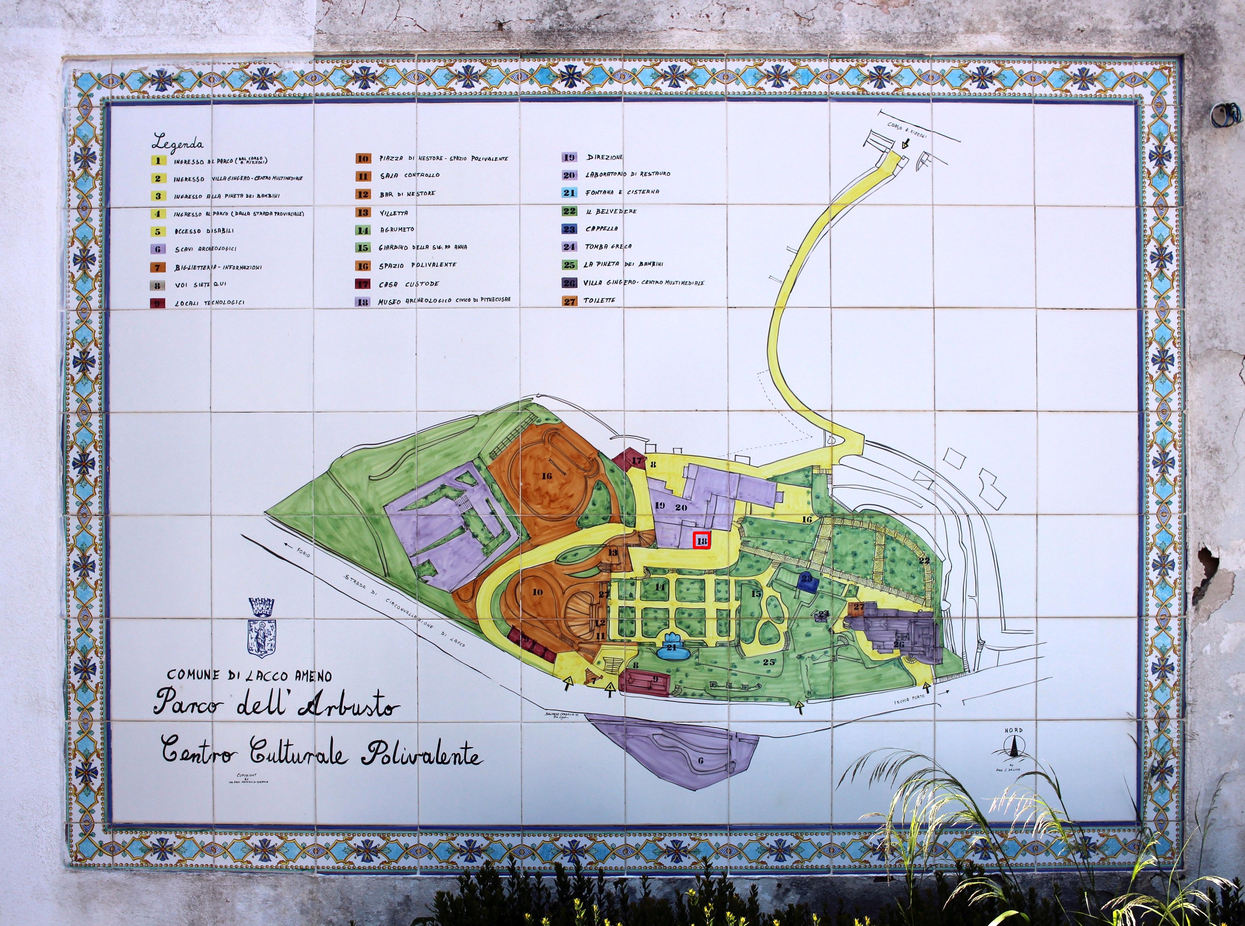 Lacco Ameno: Map of the houses and park of Villa Arbusto.